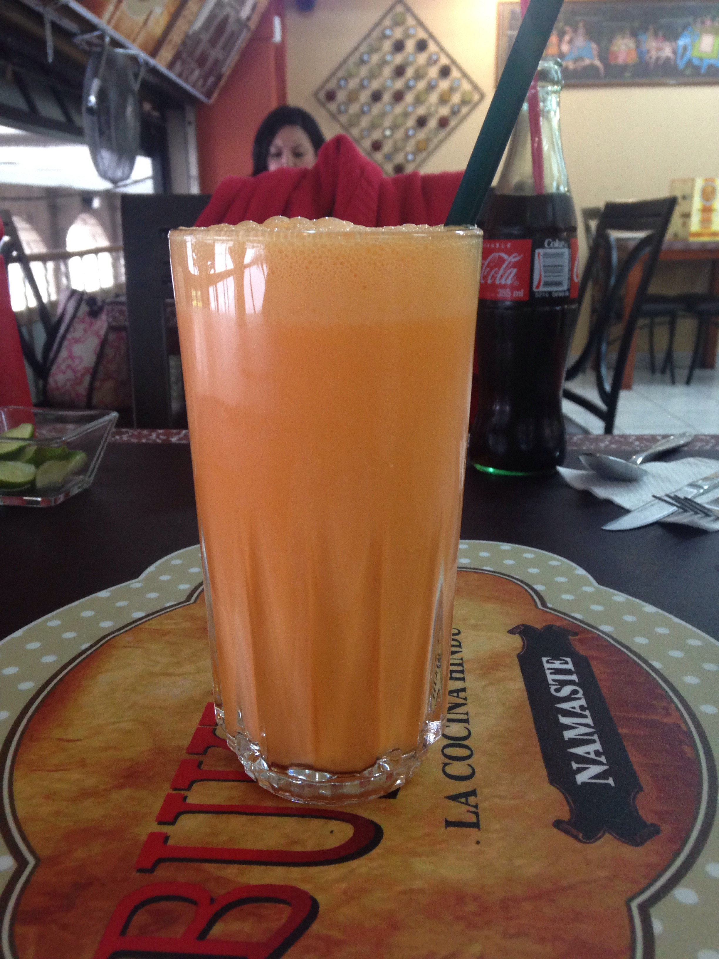 Mango Lassi, traditional yogurt-based drink from India. Taken at Mexico City.